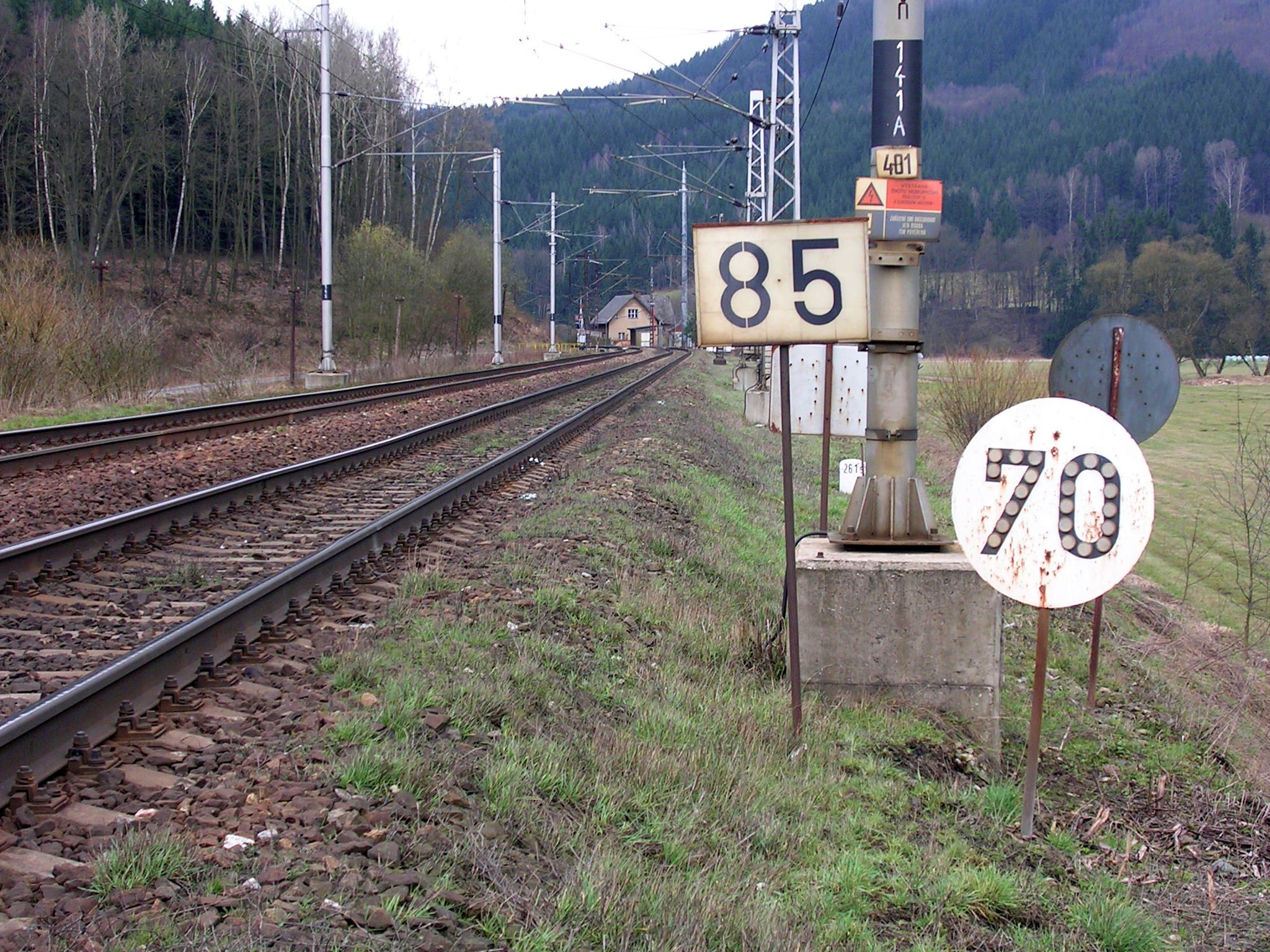 Railroad Olomouc–Praha near train stop Bezpráví, the Czech Republic.